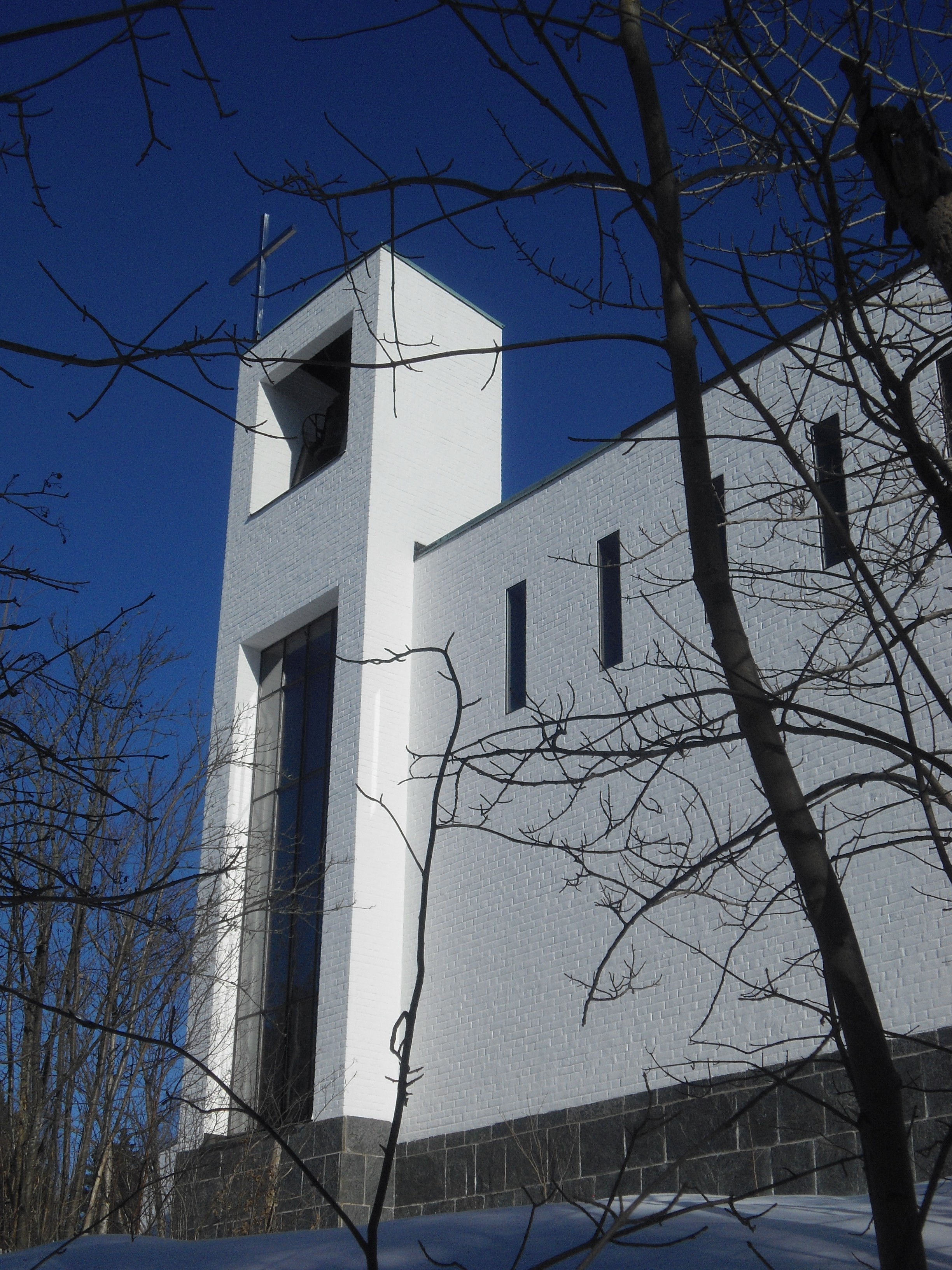 The Petrus church, Stocksund north of Stockholm, Sweden, March 2010